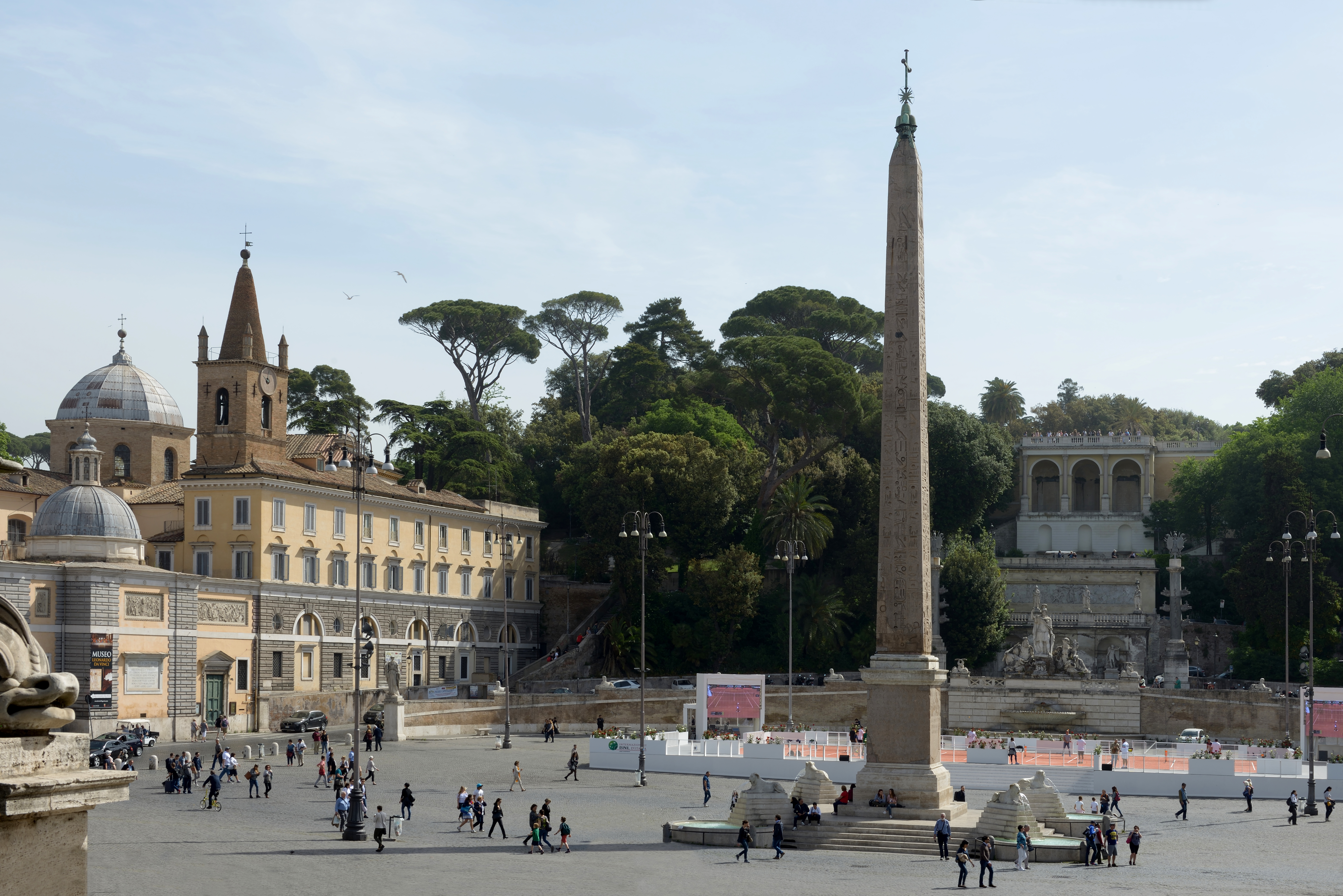 The Piazza del Popolo and the Flaminio Obelisk in Rome.